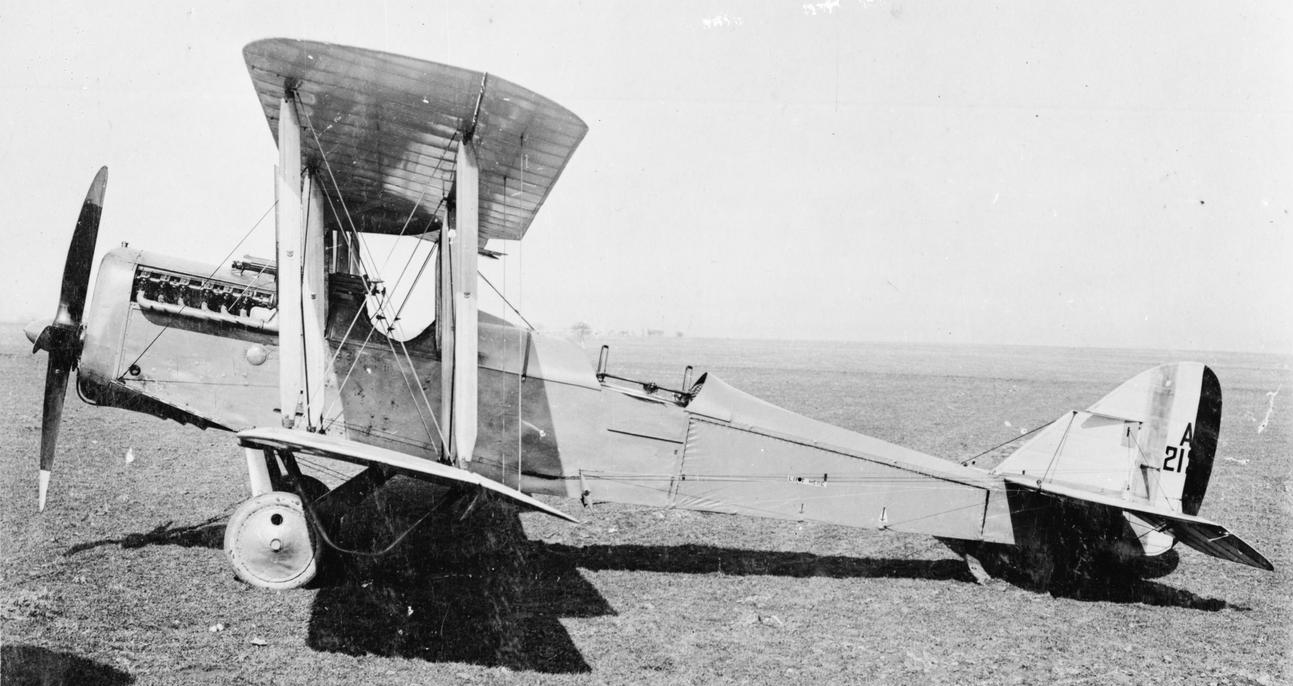 This photograph is over ninety years old It is of a service aircraft, and was taken during the 1914-1918 war - at a time when all photography of service aircraft except by service personnel on official duty was strictly forbidden. There is therefore a strong legal presumption that any original copyright belonged to the British Crown - which copyright has long expired. It has been published many times in various source during the past ninety years.